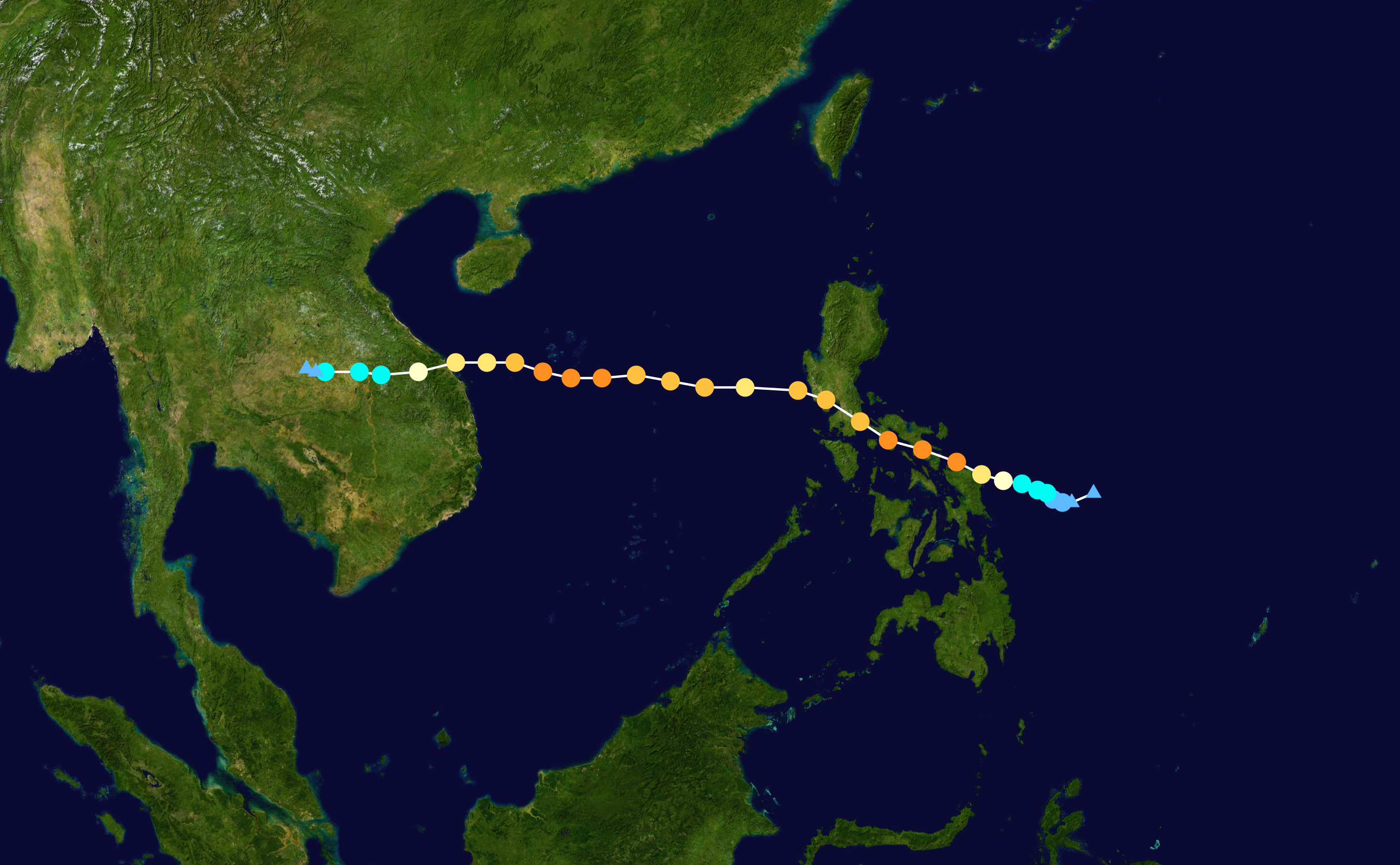 Typhoon Xangsane (2006) track. Uses the color scheme from the Saffir-Simpson Hurricane Scale.